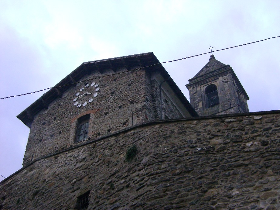 The church of St. Bonifacio to Cusercoli (Civitella di Romagna - province of Forlì-Cesena)